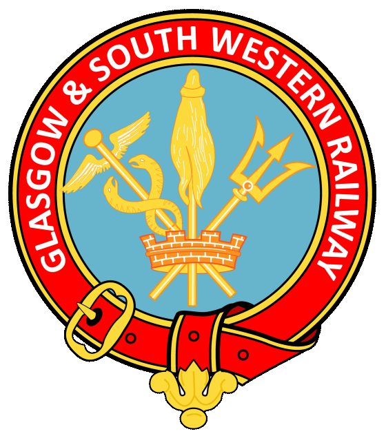 A recreation of the emblem used by the Glasgow and South Western Railway. The emblem was originally used by the Glasgow, Paisley, Kilmarnock and Ayr Railway. Created using Adobe Illustrator CS3.